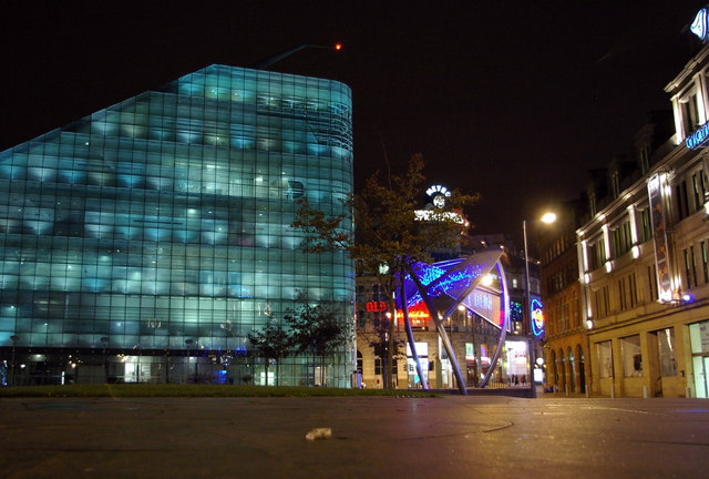 Cathedral Gardens and Urbis by night From the left: Urbis, Printworks and rear of Triangle (Corn Exchange building).